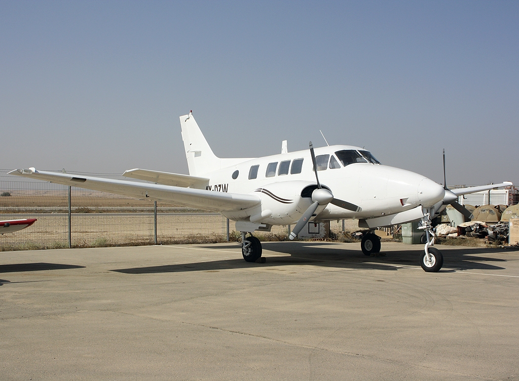 Beech 80 Queen Air at Beer Sheva Sde Teyman